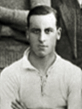 Bert Spreadbury - Brentford FC 1920-21 - Cropped from an unmarked team postcard.